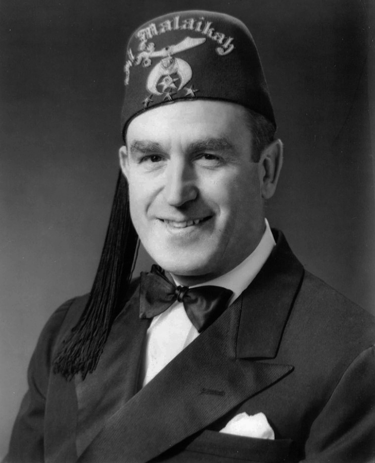 Photo of actor Harold Lloyd as a Shriner. He was very active in the lodge and became the Imperial Potentate in 1949.